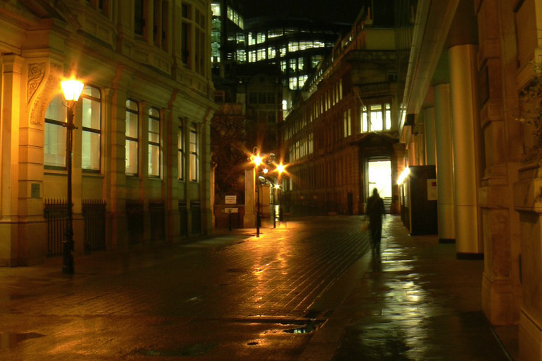 Throgmorton Avenue, London, from Geograph-2283041-by-Rich-Tea-crop